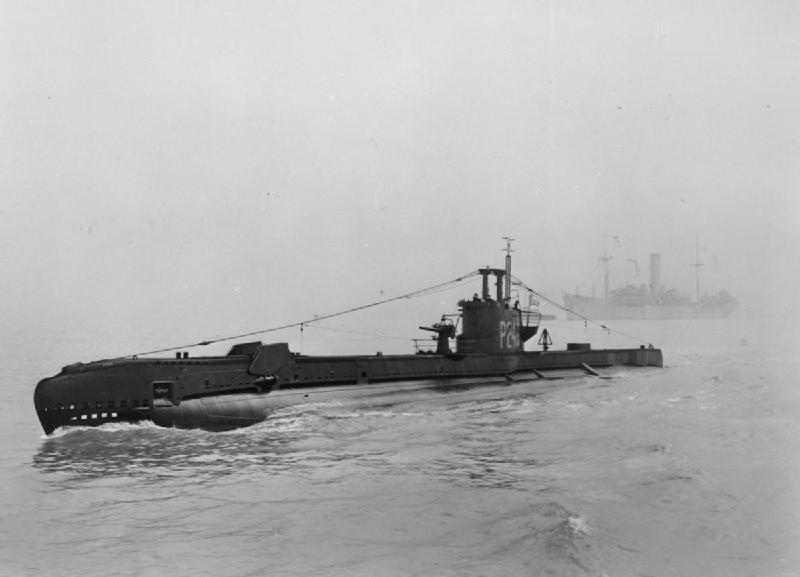 British S class submarine STYGIAN underway.